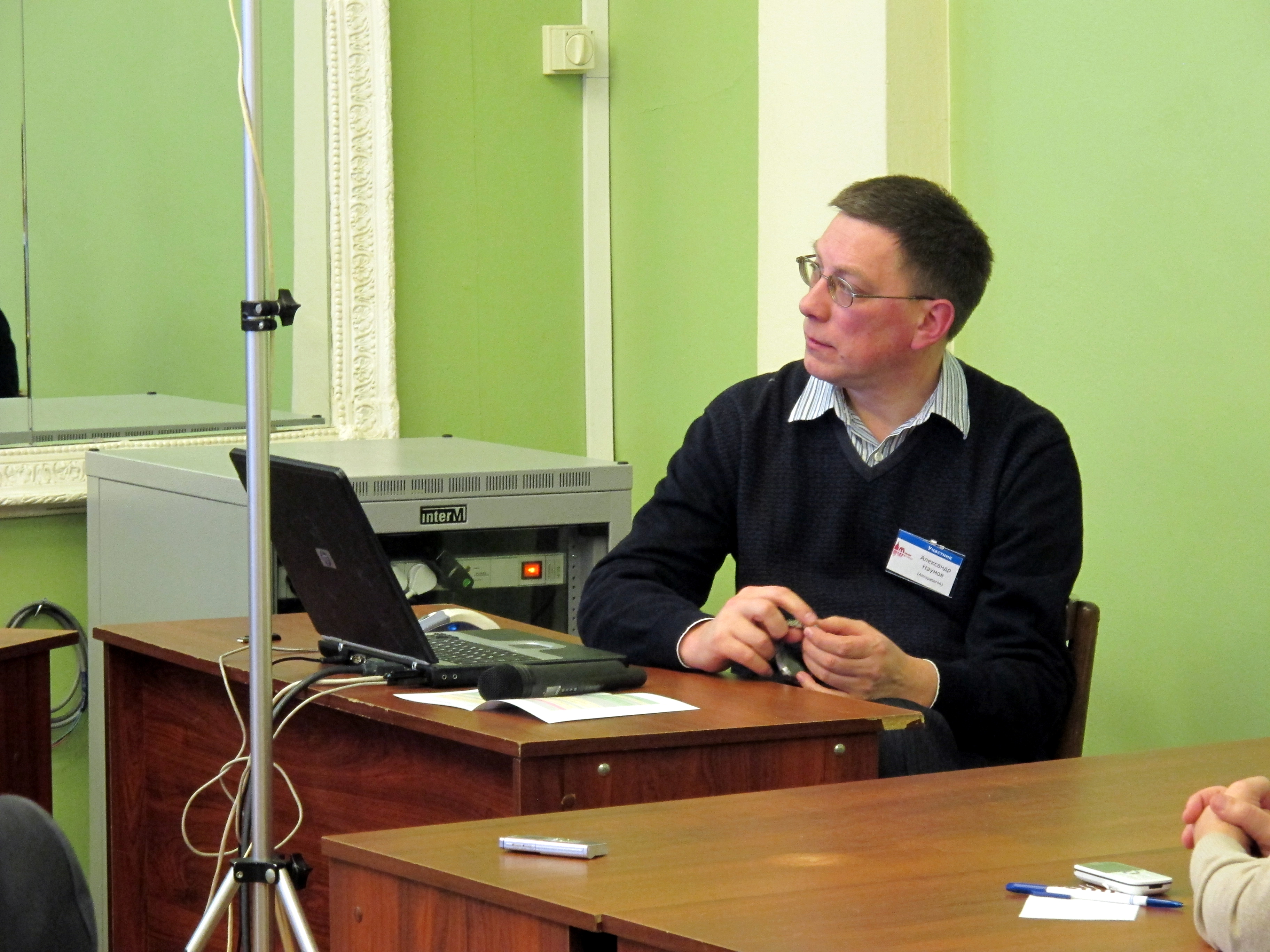 Moscow Wiki-Conference 2012 (2012-11-10)